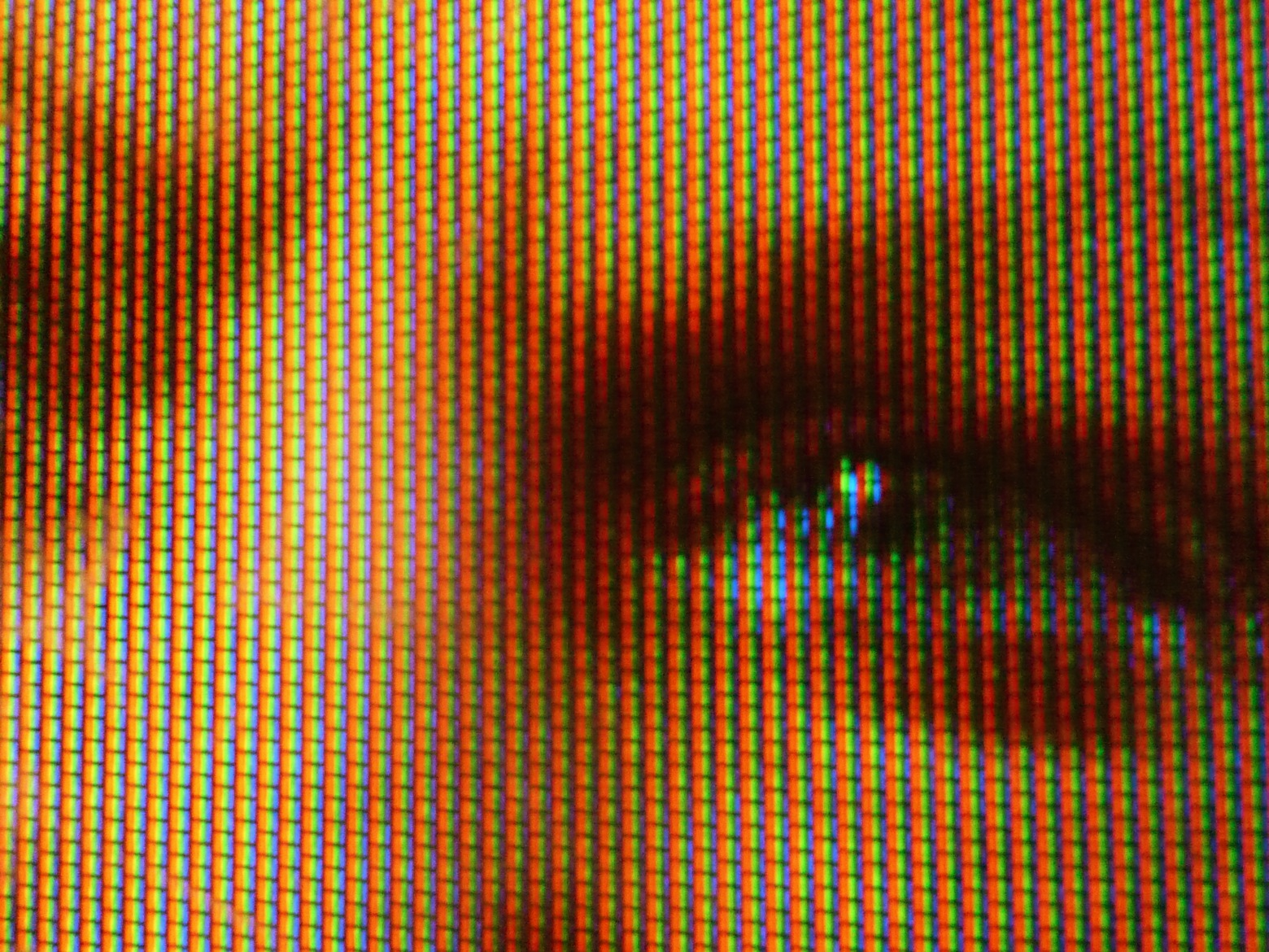 Close-up of an analog television screen, displaying the trichromatic composition of the image.